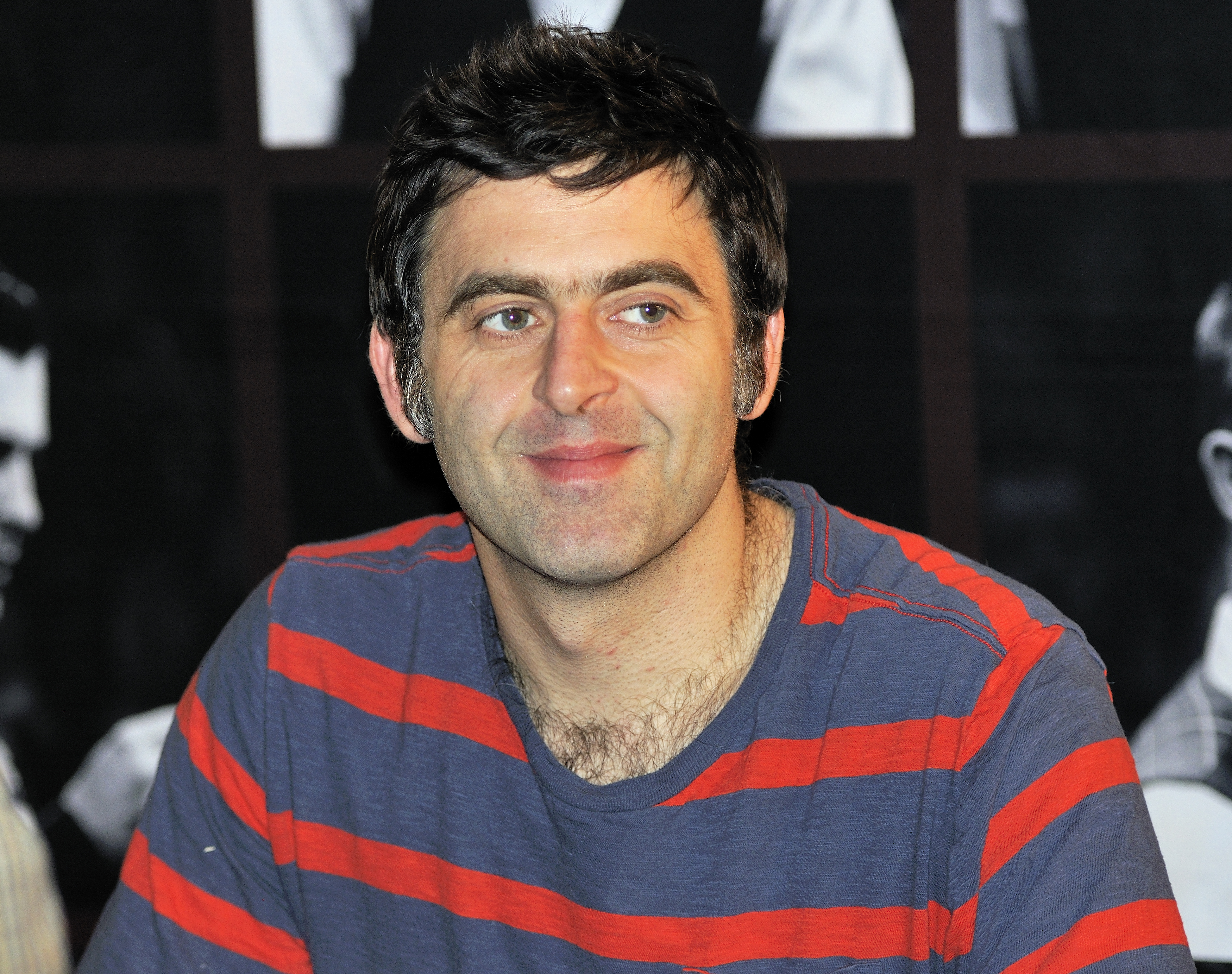 Picture taken in Berlin during the Snooker German Masters in 2014. Ronnie O’Sullivan.